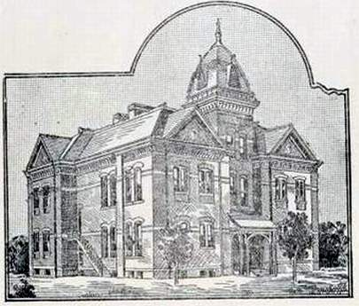 Illustration of the second school building in Salisbury, Missouri as i appeared in 1896.